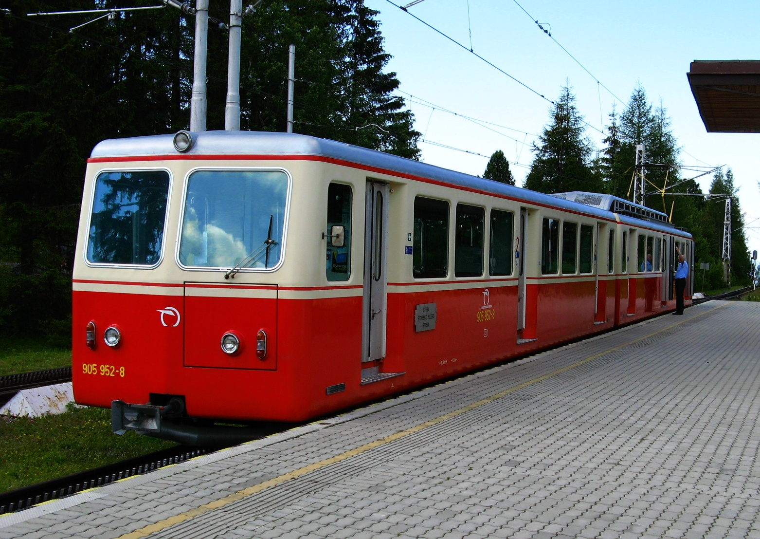 Train cog-wheel railway Štrbské pleso - Tatranská Štrba (station Štrbské pleso).